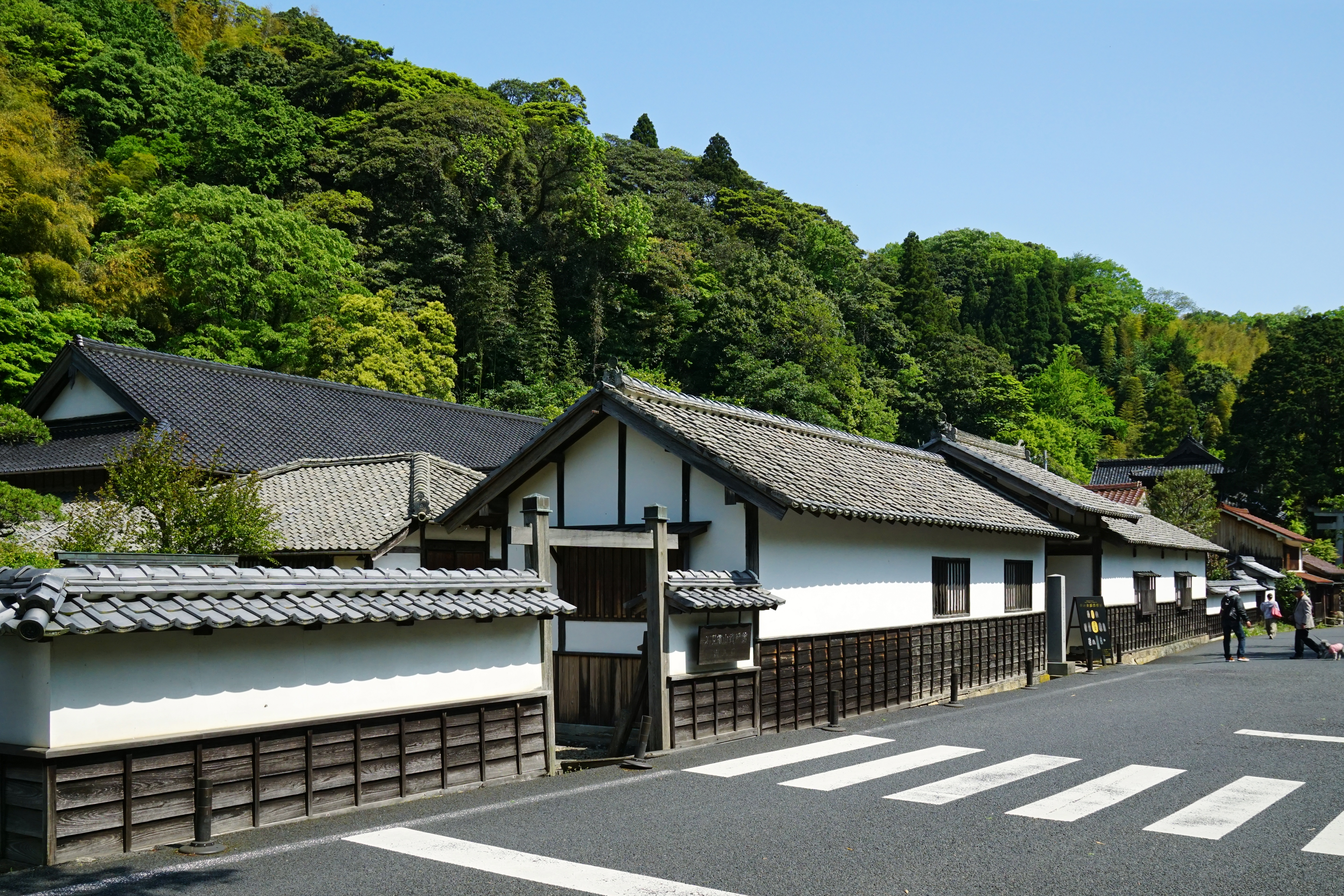 Iwami_Silver_Mine_Museum (Ruins of the Oomori prefectural governor's office) in Ōda, Shimane prefecture, Japan. It was registered as part of the UNESCO World Heritage Site "Iwami Ginzan Silver Mine and its Cultural Landscape".